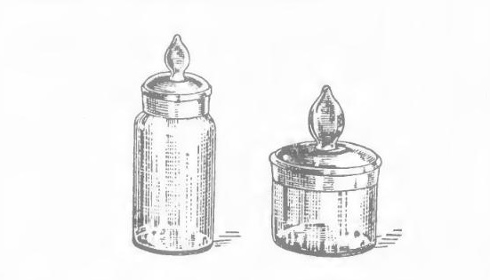 Բյուքս